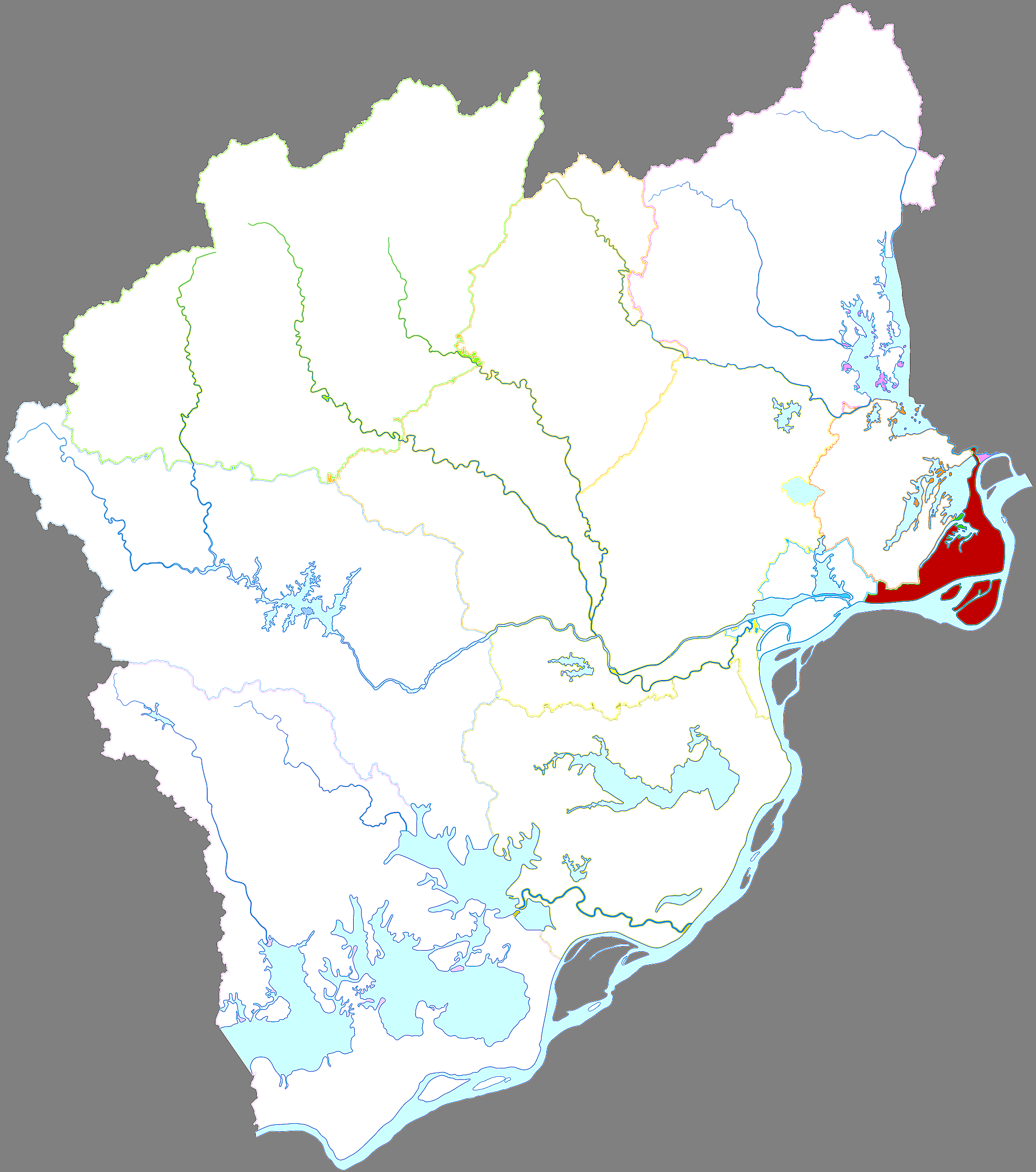 Location of Yingjiang district in Anqing city, China